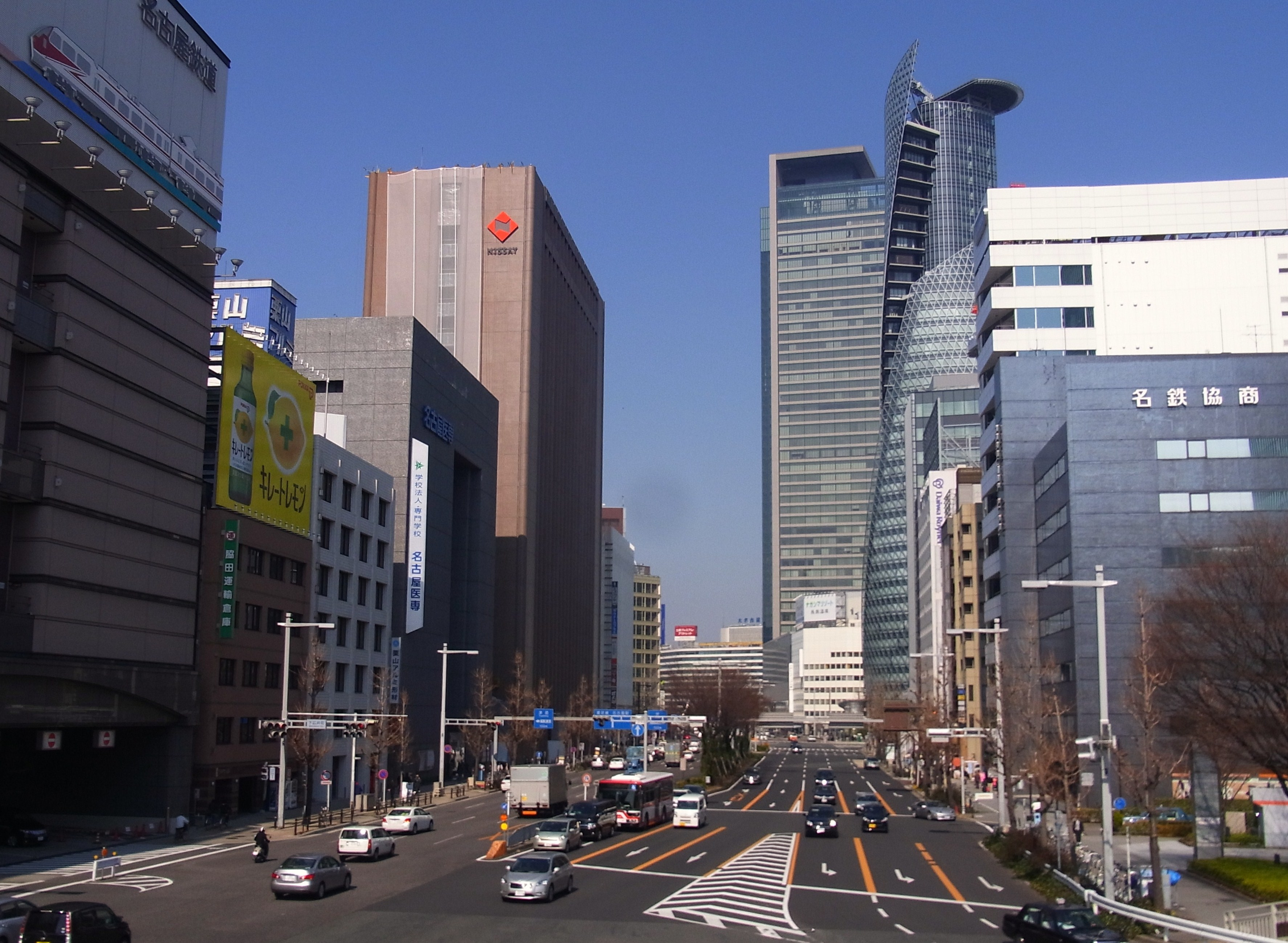 Meieki-dori St. in Neiekiminami, Nakamura-ku, Ward, Nagoya City.